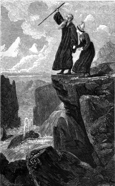 An engraving showing people trying to escape from a monster-whale. It is an illustration to the Icelandic legend of Redhead (Rauðhöfði) which is said to be the cause of formation of Glymur, the highest waterfall in Iceland (198 m).